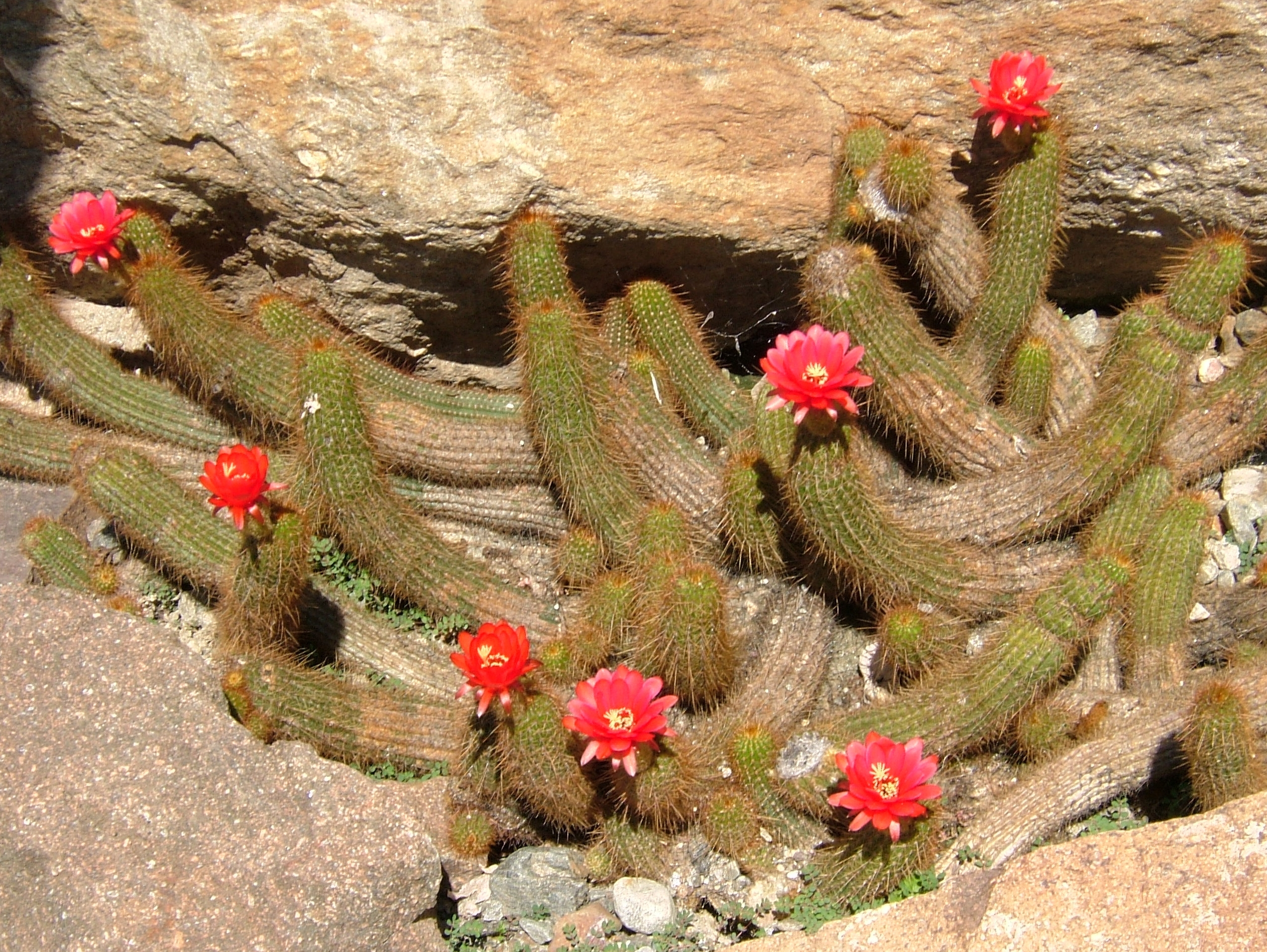 Echinopsis huaschaBotanical Garden MeranWater- and Terraces Gardens